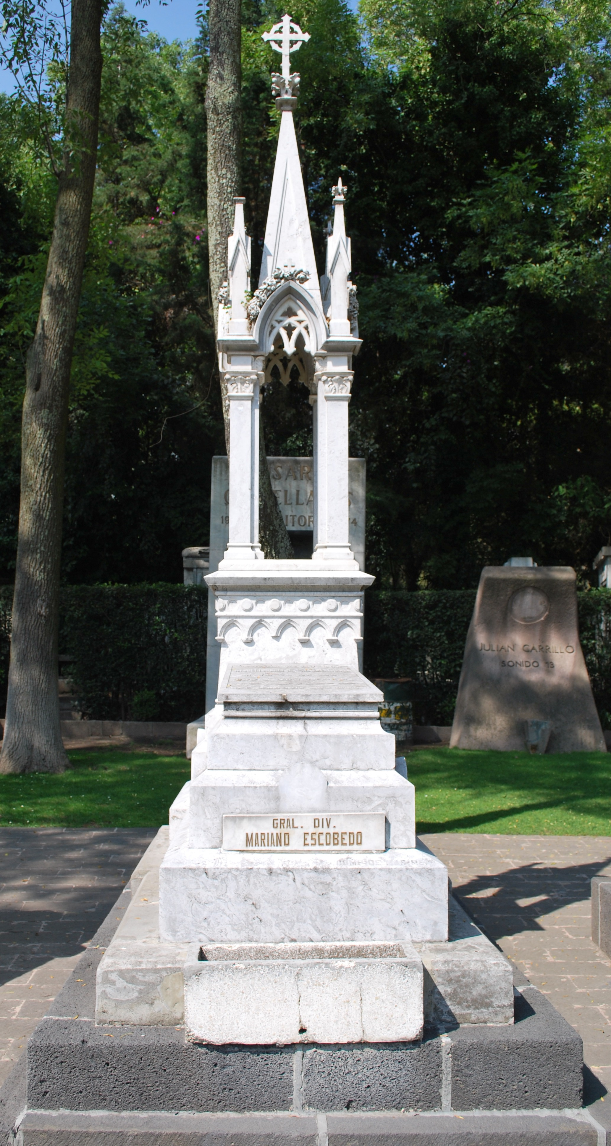 Tomb of General Mariano Escobedo in the Panteon Civil de Dolores cemetery in Mexico City